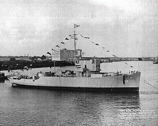 USS Density (AM-218) after launching.